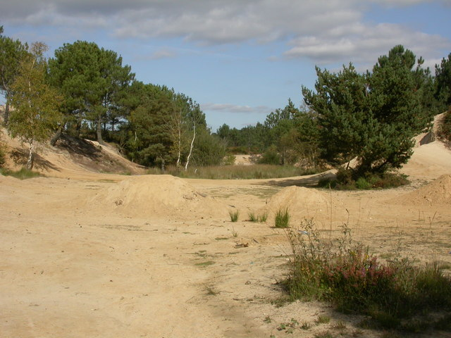 Upton Heath, old sandpit One of a chain of old sandpits; judging from the tyre-marks, popular with BMX cyclists.